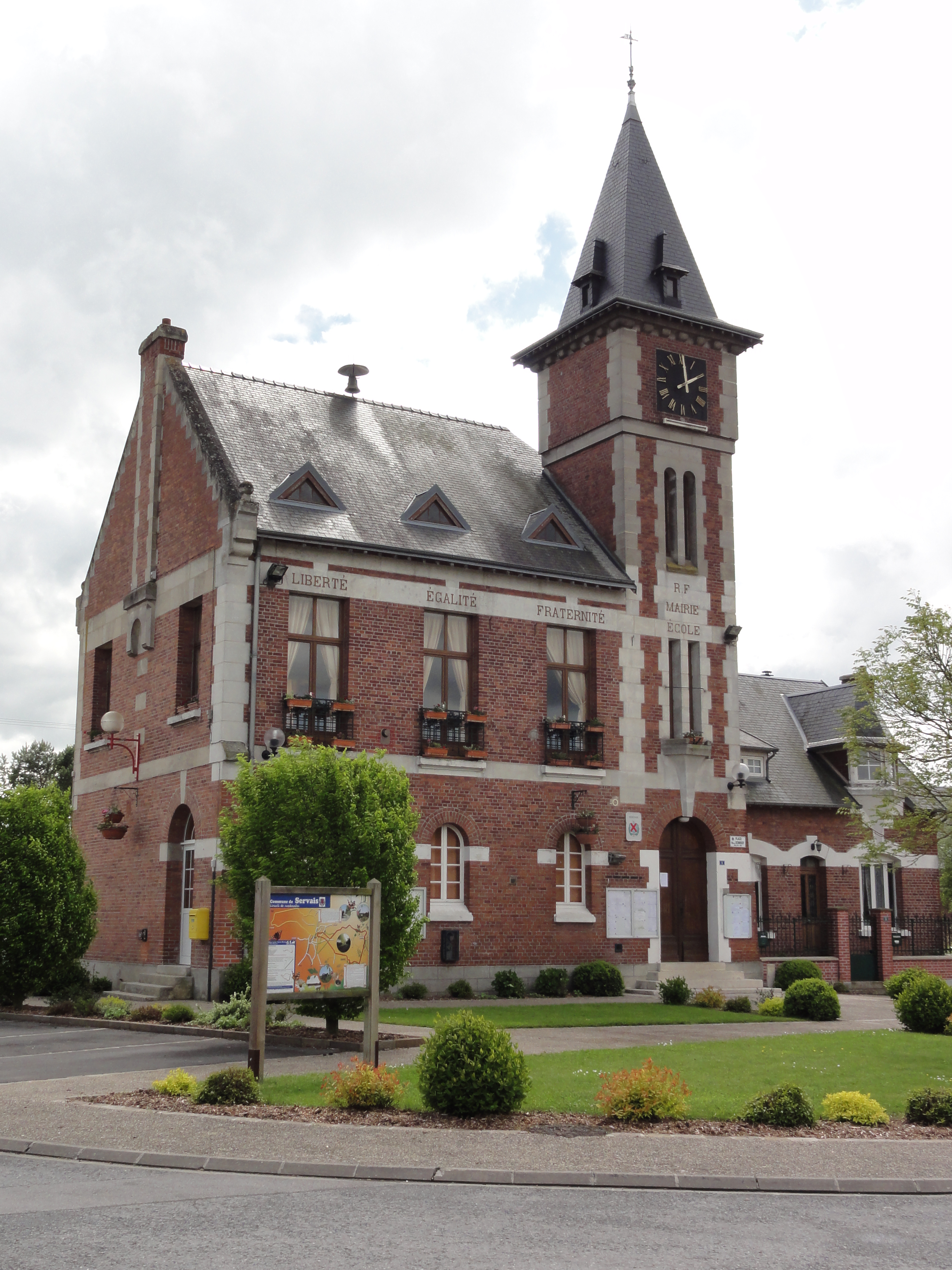 Servais (Aisne) mairie